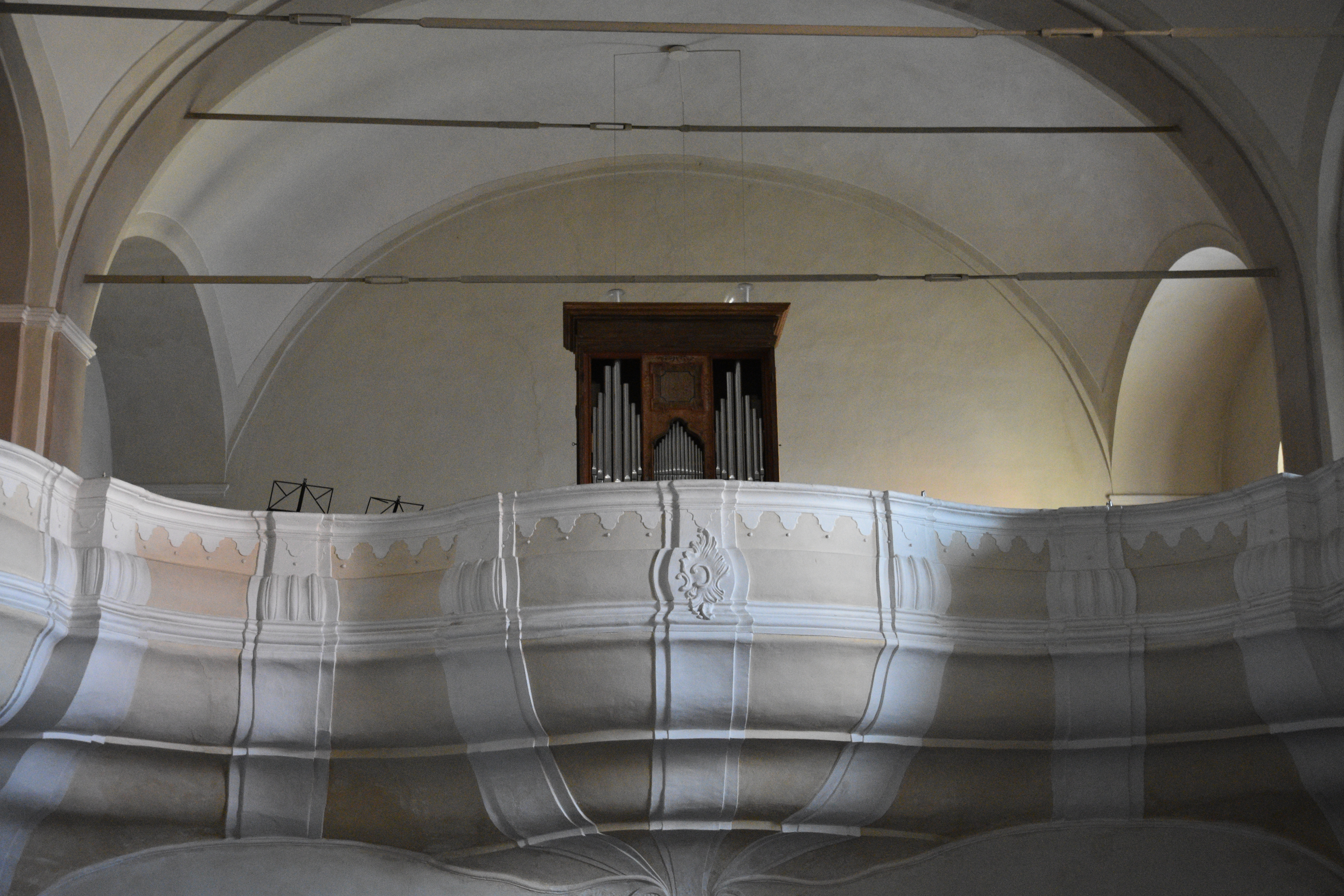 Church Ehemalige Augustiner-Eremiten Kirche Fürstenfeld - Interior